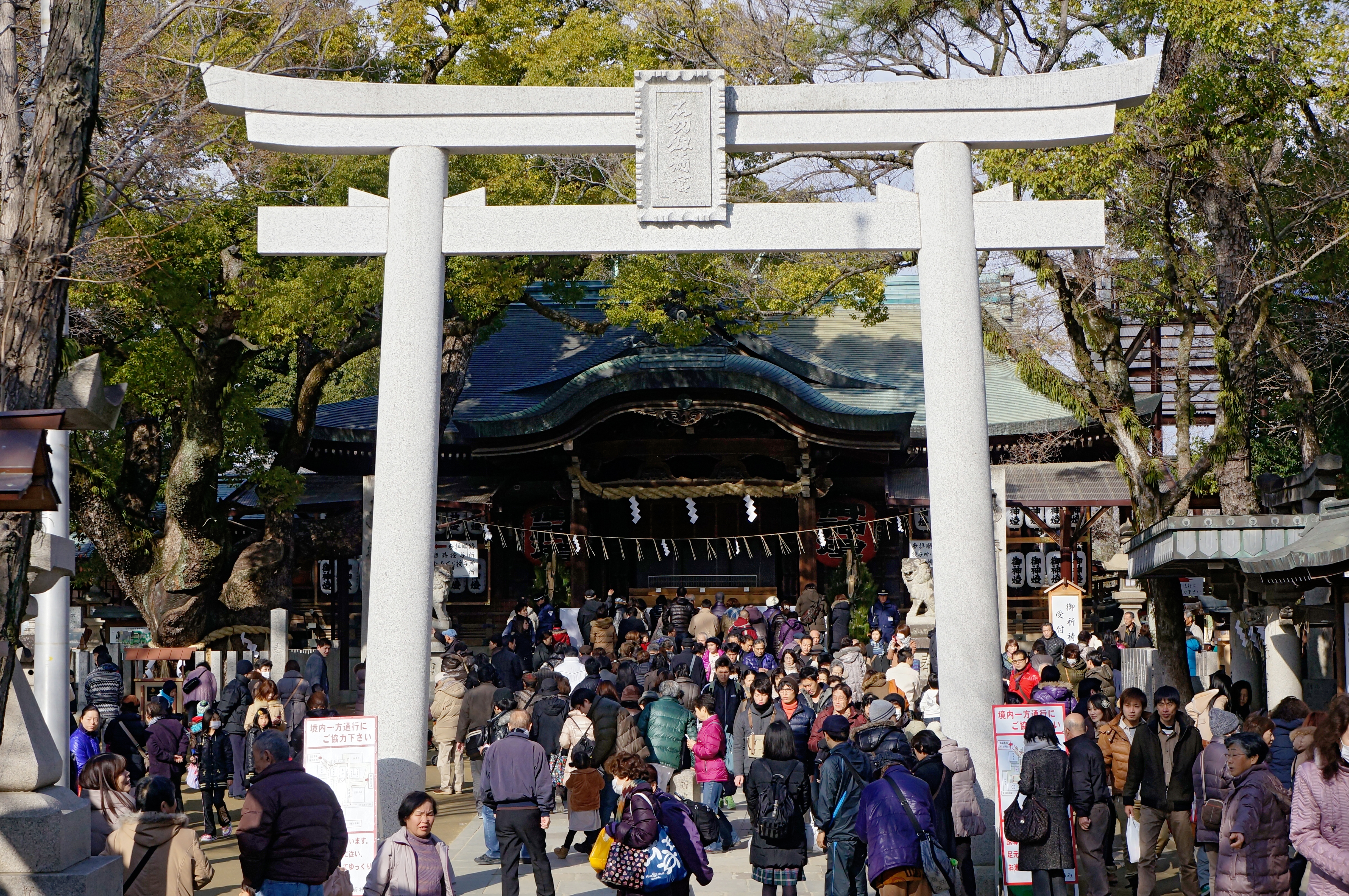 At Ishikiri Tsurugiya-jinja in Higashiosaka, Osaka prefecture, Japan